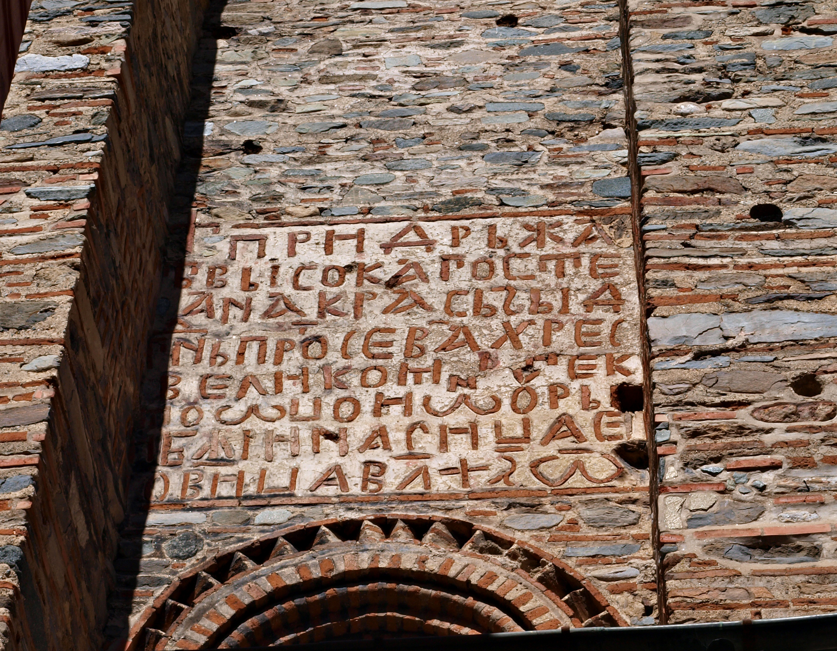 "During the rule of the most supreme lord King Stefan Dušan, lord Prōtosebastos Hrelja, with great work and at a great expense built this tower to the holy father saint John of Rila and to the Mother of God, called Osenovitsa, in the year 6843 indiction fifth. [1334–1335]"